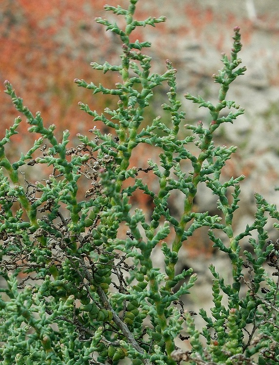 Kalidium caspicum, Azerbaijan, Alijancay walley